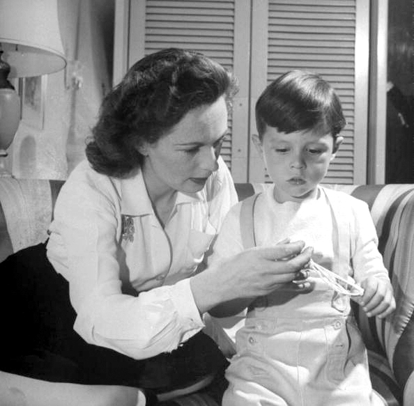 Photograph of Geraldine Fitzgerald and her son, Michael Lindsay Hogg